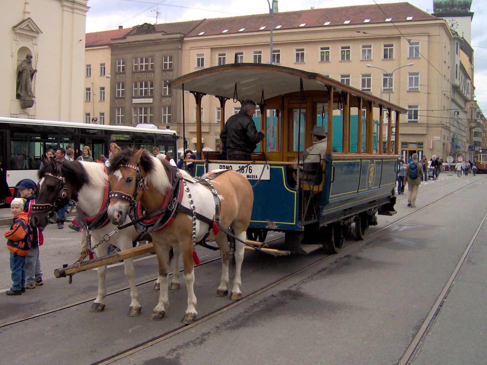 Horse tram in Brno (the oldest conserved tram in Czech Republic, made in 1876)